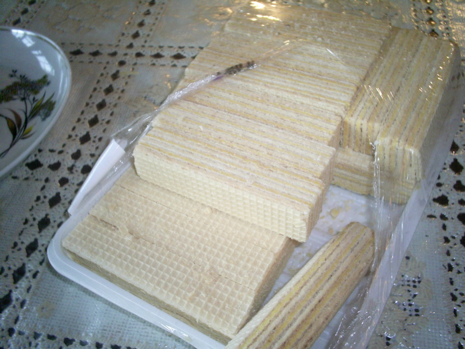 Russian Waffle